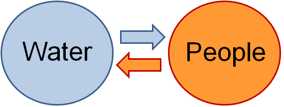 Schematic of socio-hydrology as the study of the interplay between social and hydrological processes.